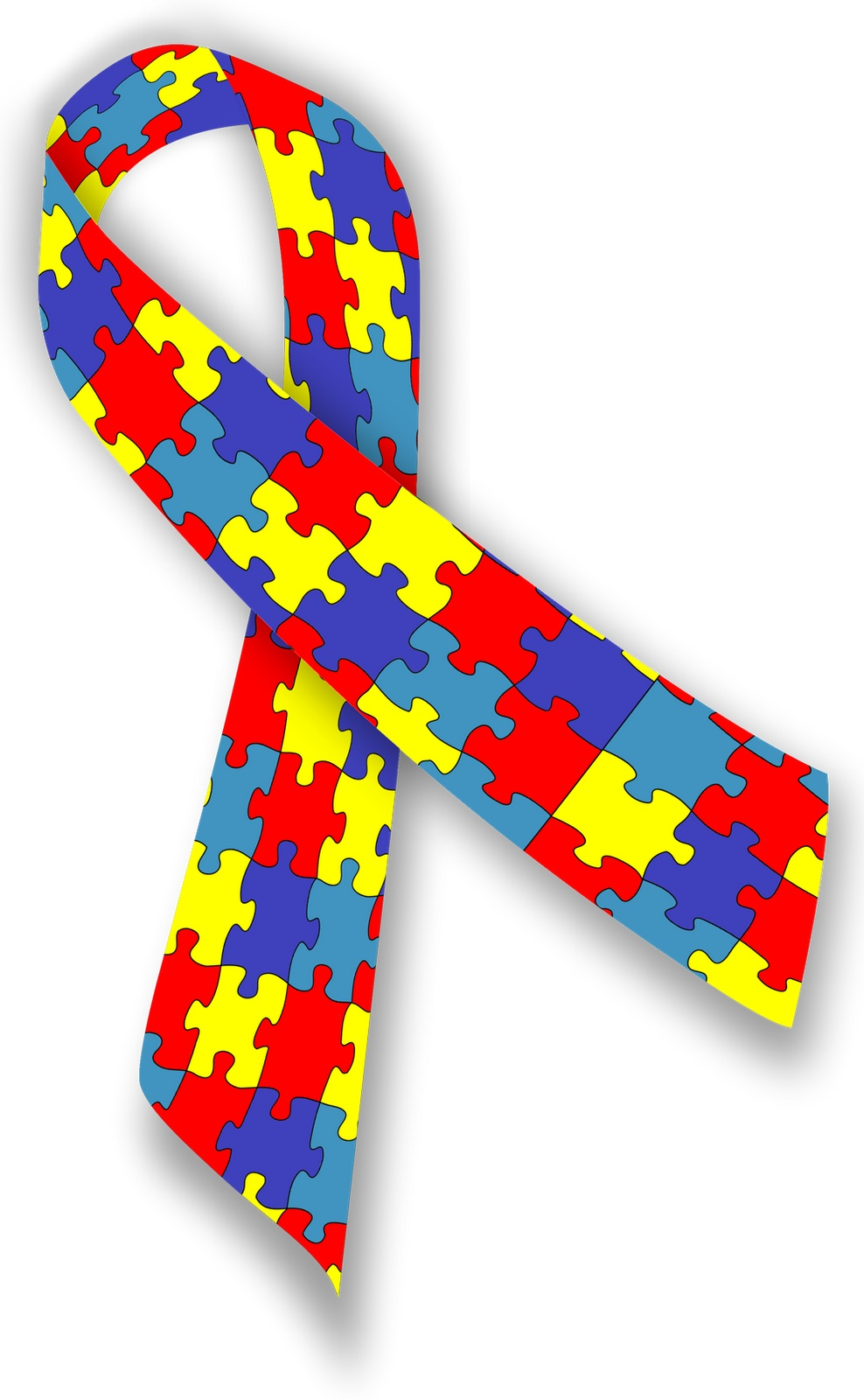 "Autism awareness ribbon" which is strongly disliked by many autists - please use Autism spectrum infinity awareness symbol.svg instead.